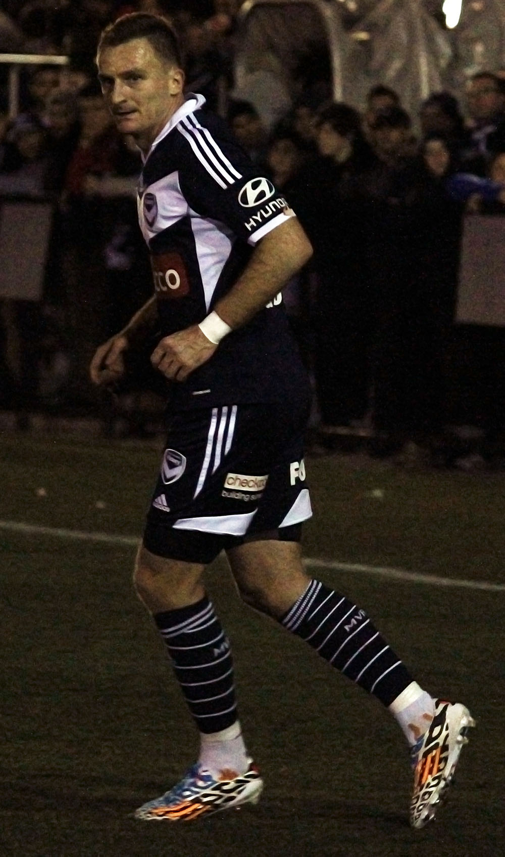 Besart Berisha playing for Melbourne Victory in a preseason friendly game against Hume City FC, 2014.